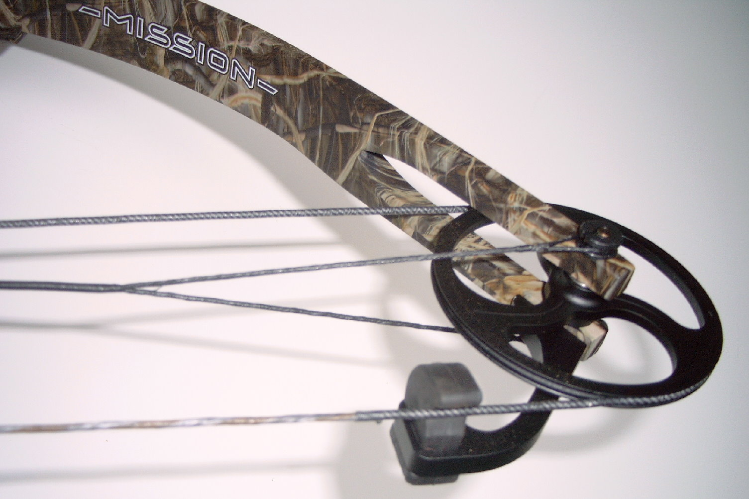 Idler of a Mission single-cam bow with bow string stopper and y-cable suspension